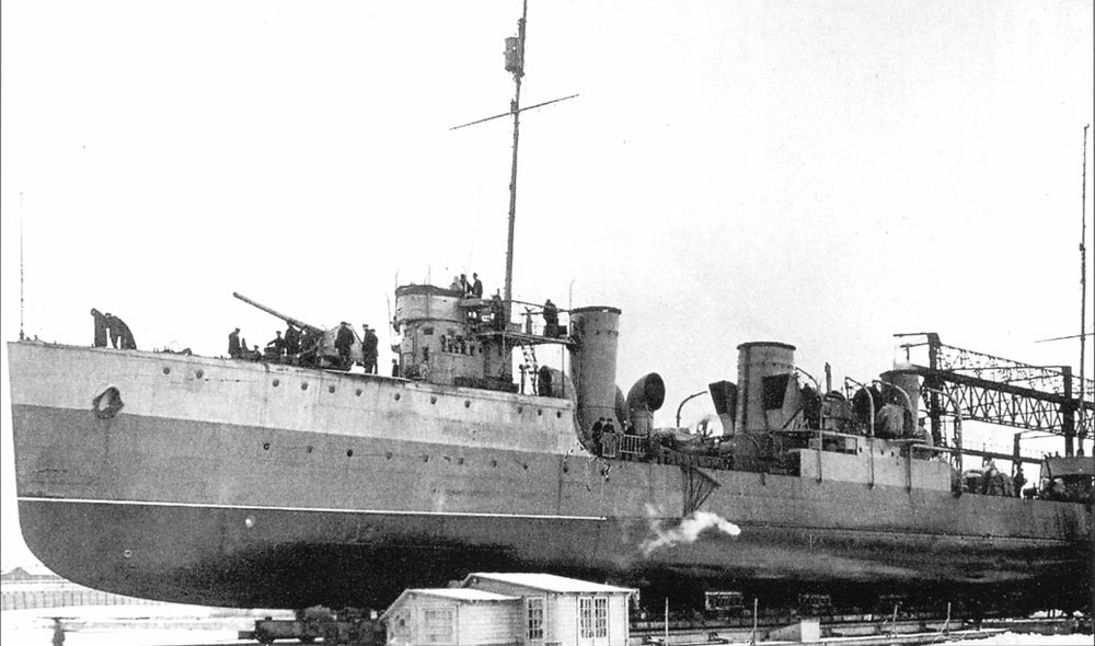 Estonian destroyer Wambola on the dock at Tallinn.